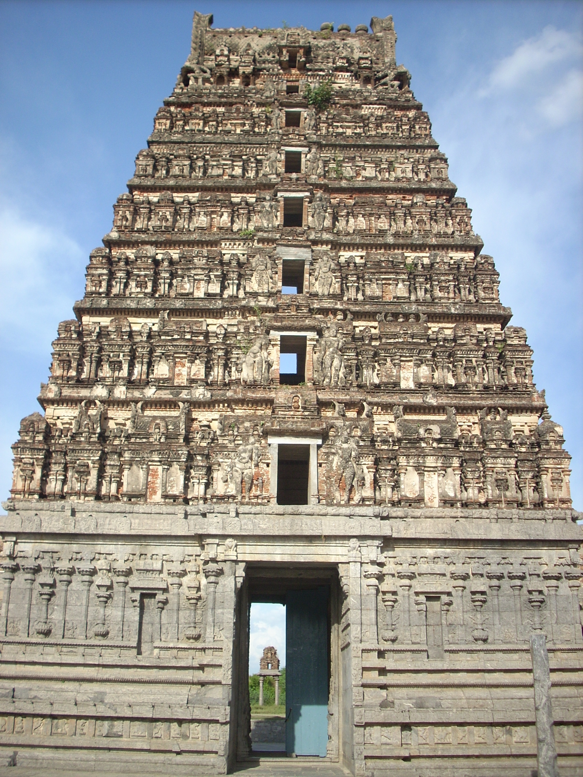 gingee fort temple